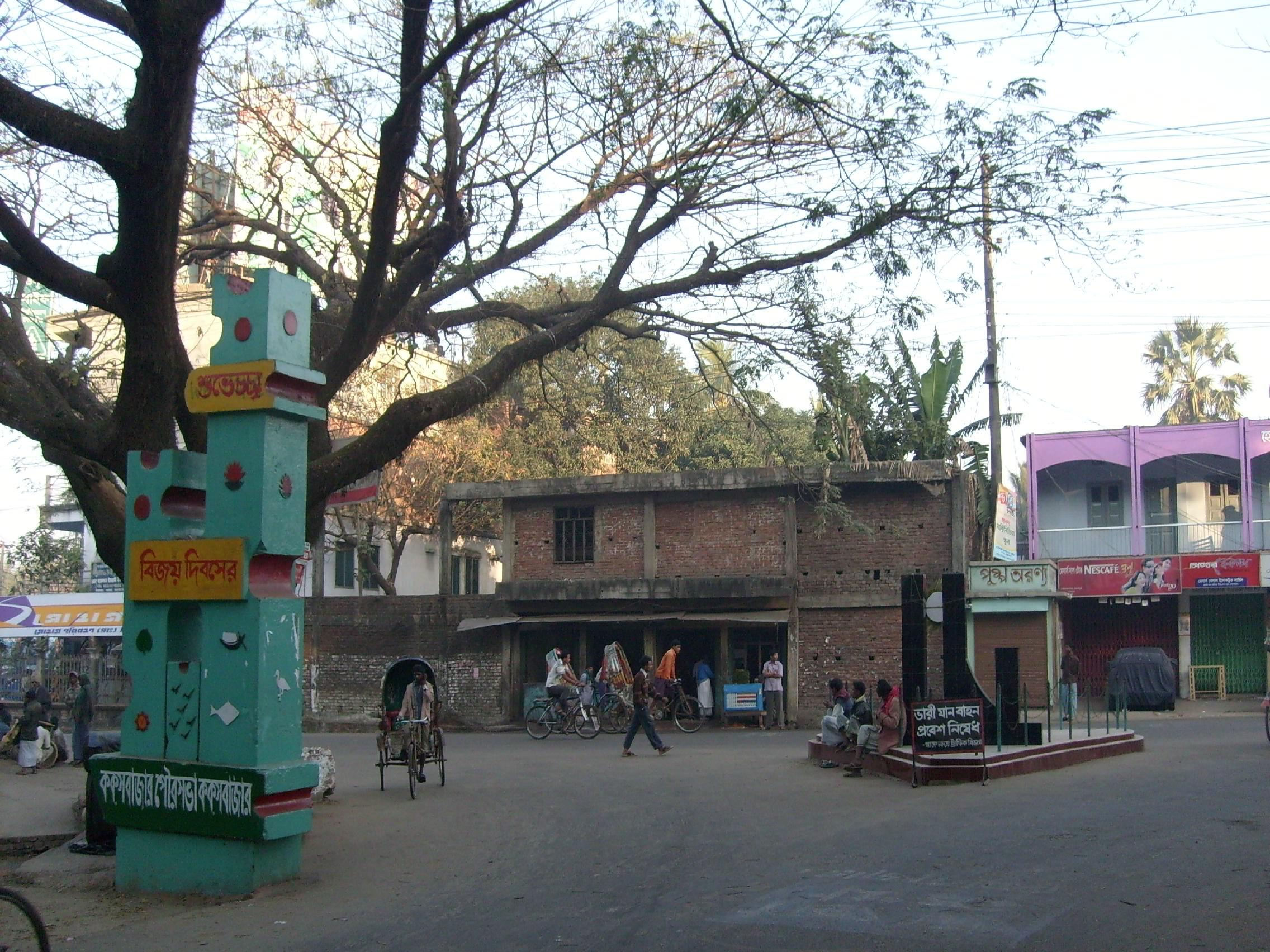 Sohid Miner, Cox's Bazar, Chittangong, Bangladesh